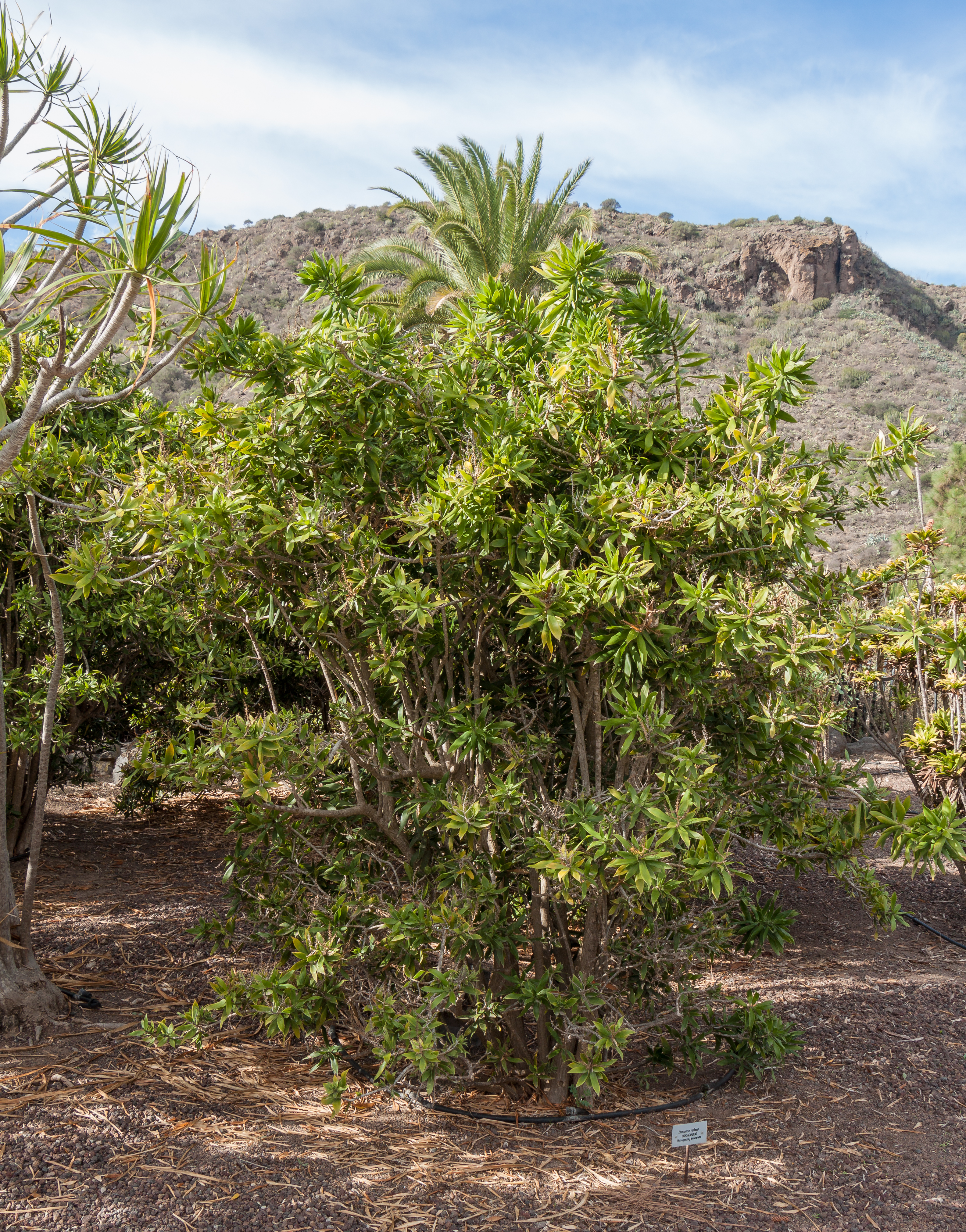 Dracaena reflexa Lam., Pleomele; Habitus; Jardín Botánico Canario Viera y Clavijo, Gran Canaria, Canary Islands, Spain.